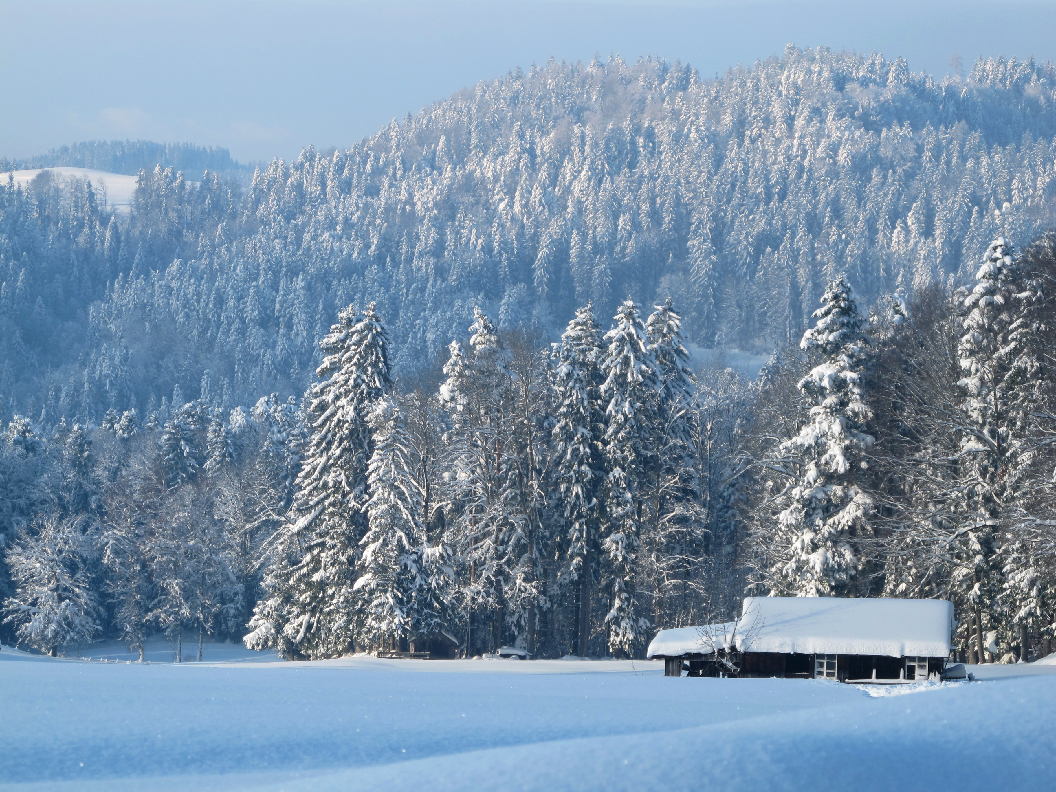 The Ruerwald in winter